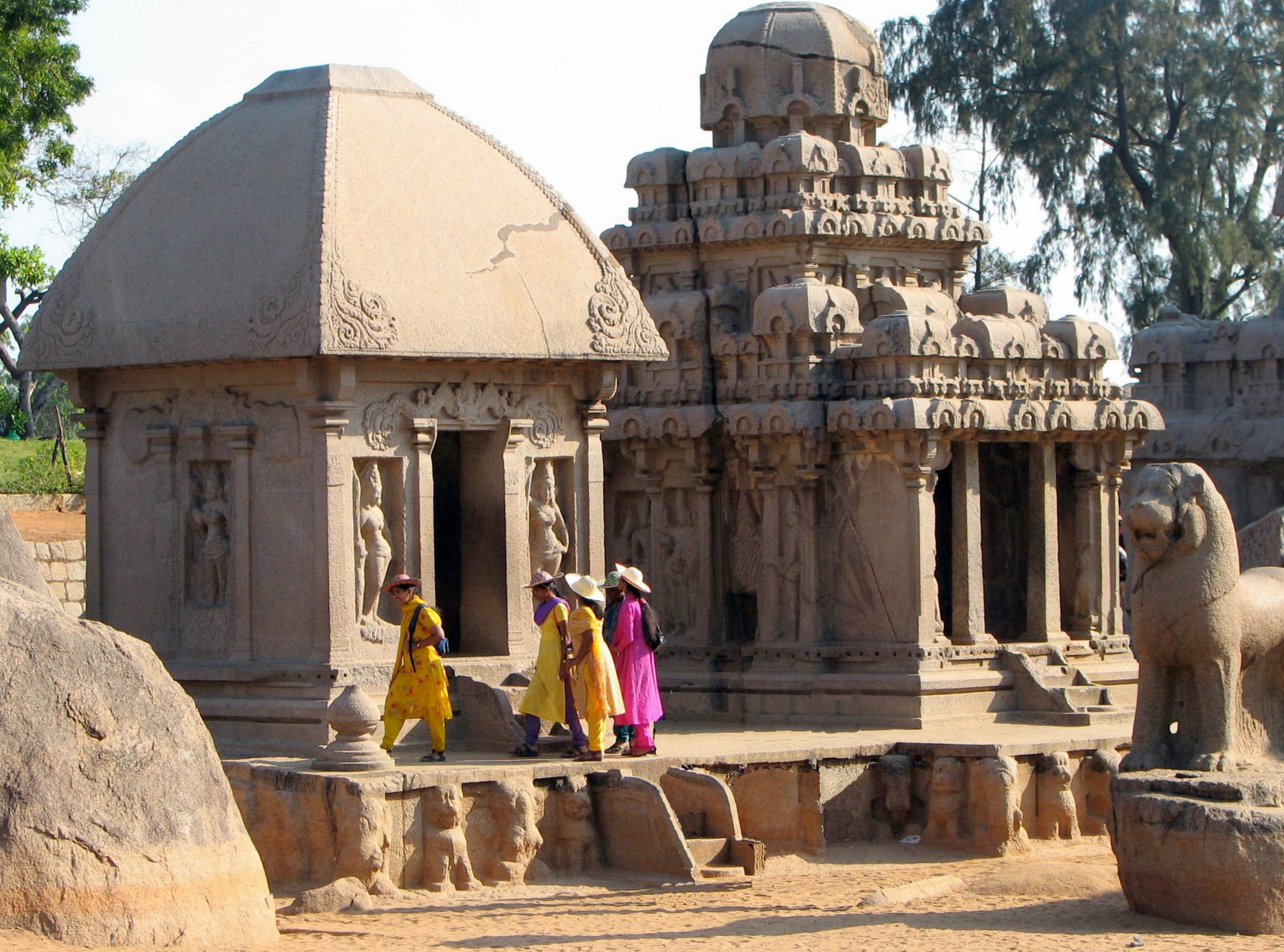 Draupadi and Arjuna temples in Pancha Rathas site, Mahabalipuram, Tamil Nadu, India